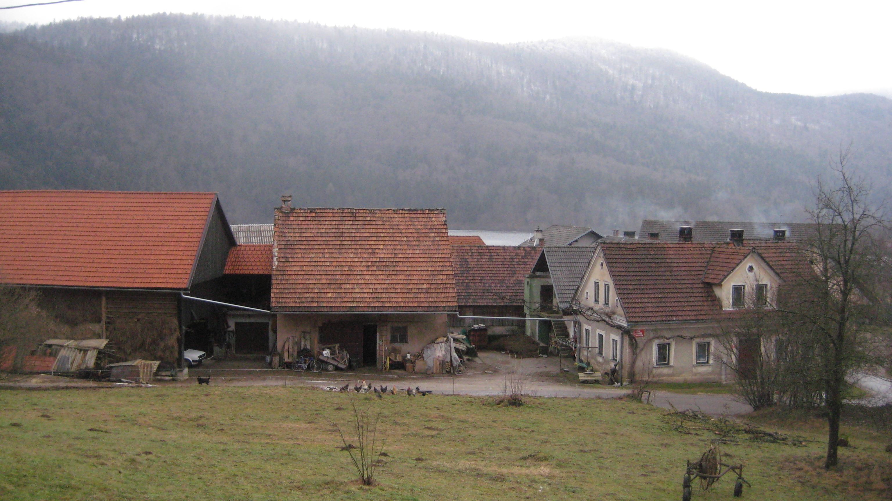 Otok, village in Slovenia. Near Cekniško jezero (lake)